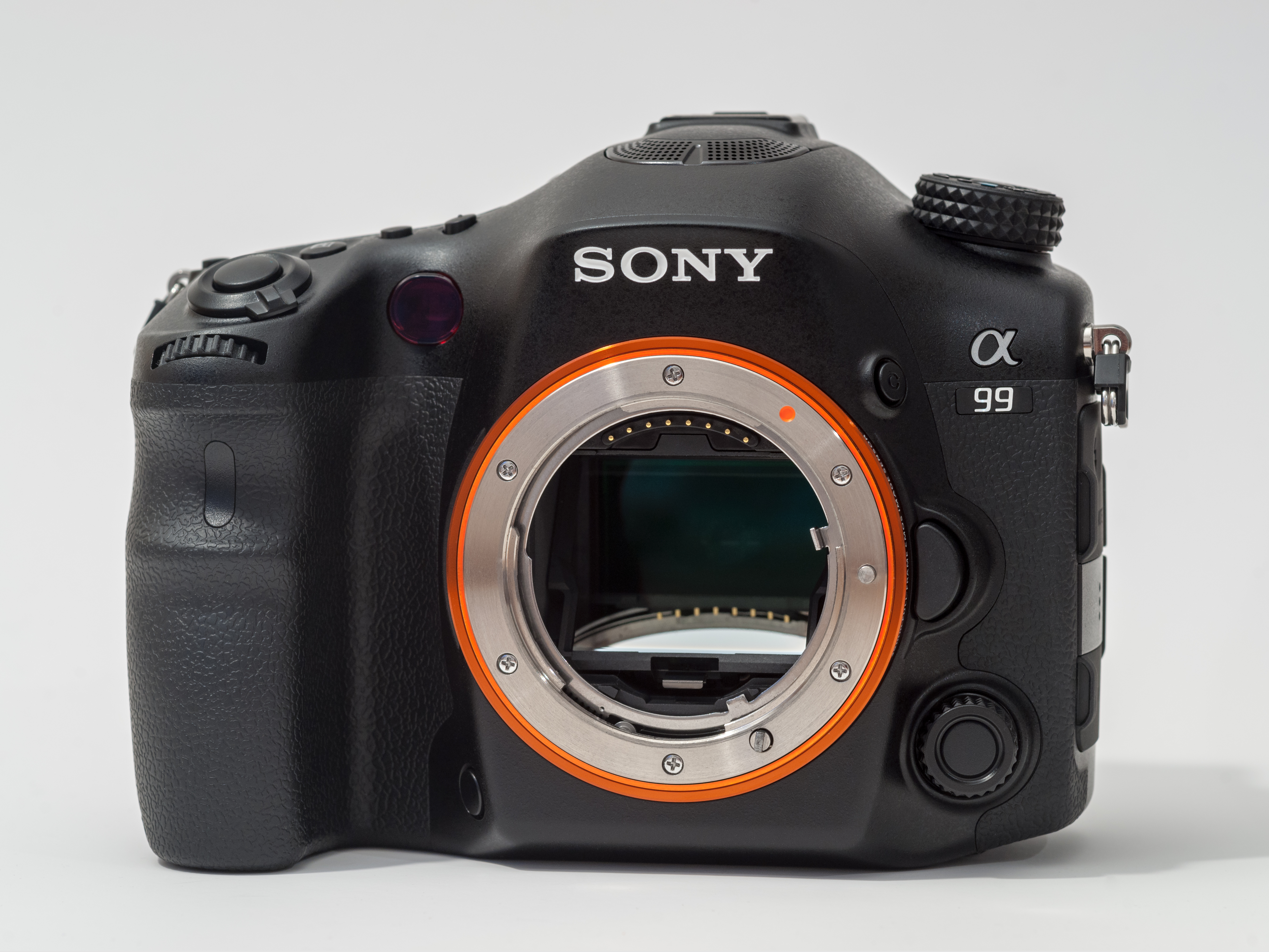 Sony Alpha a99 full-frame camera with translucent mirror-technology (SLT-A99V).